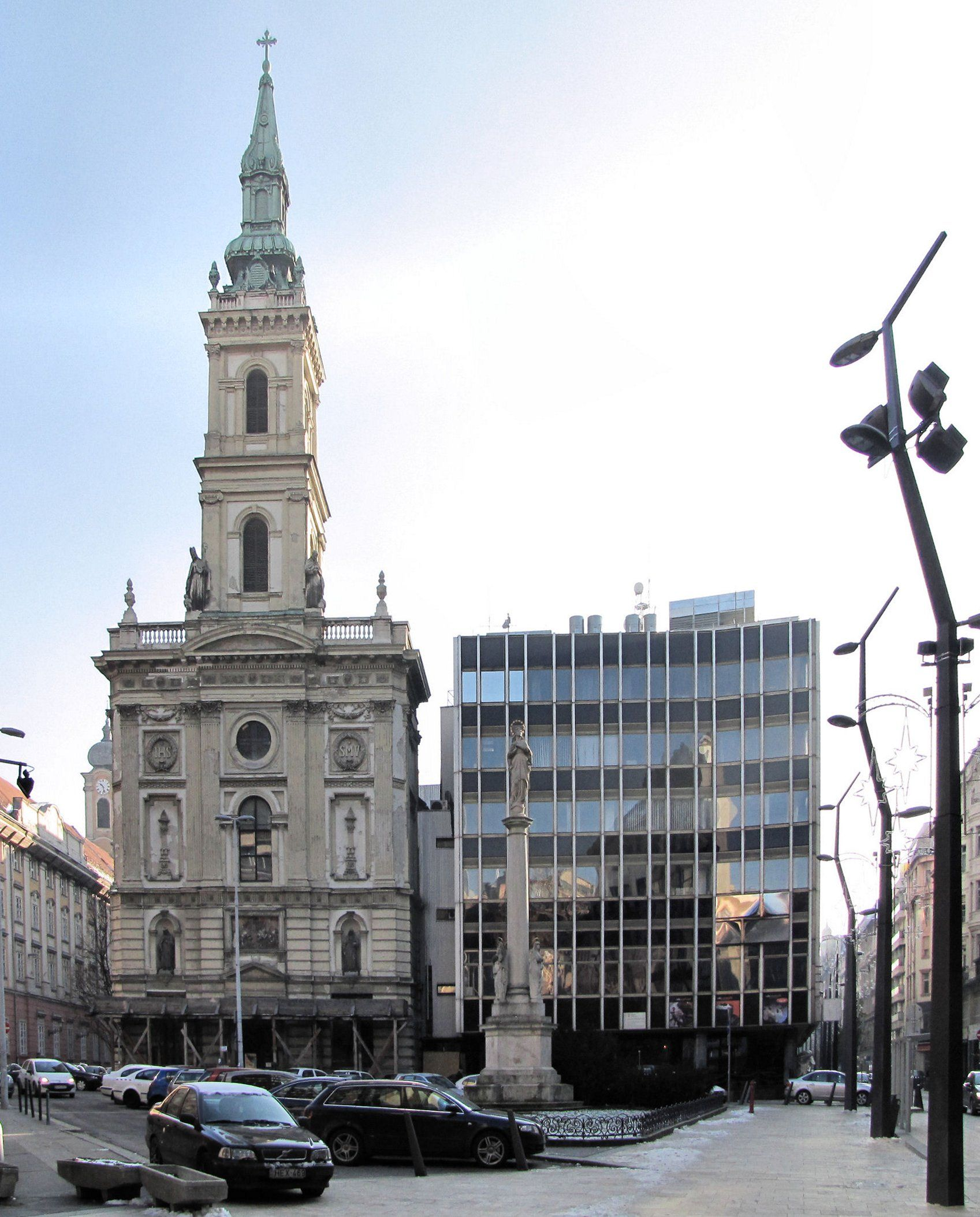 Inner-City St Anne Church, Budapest